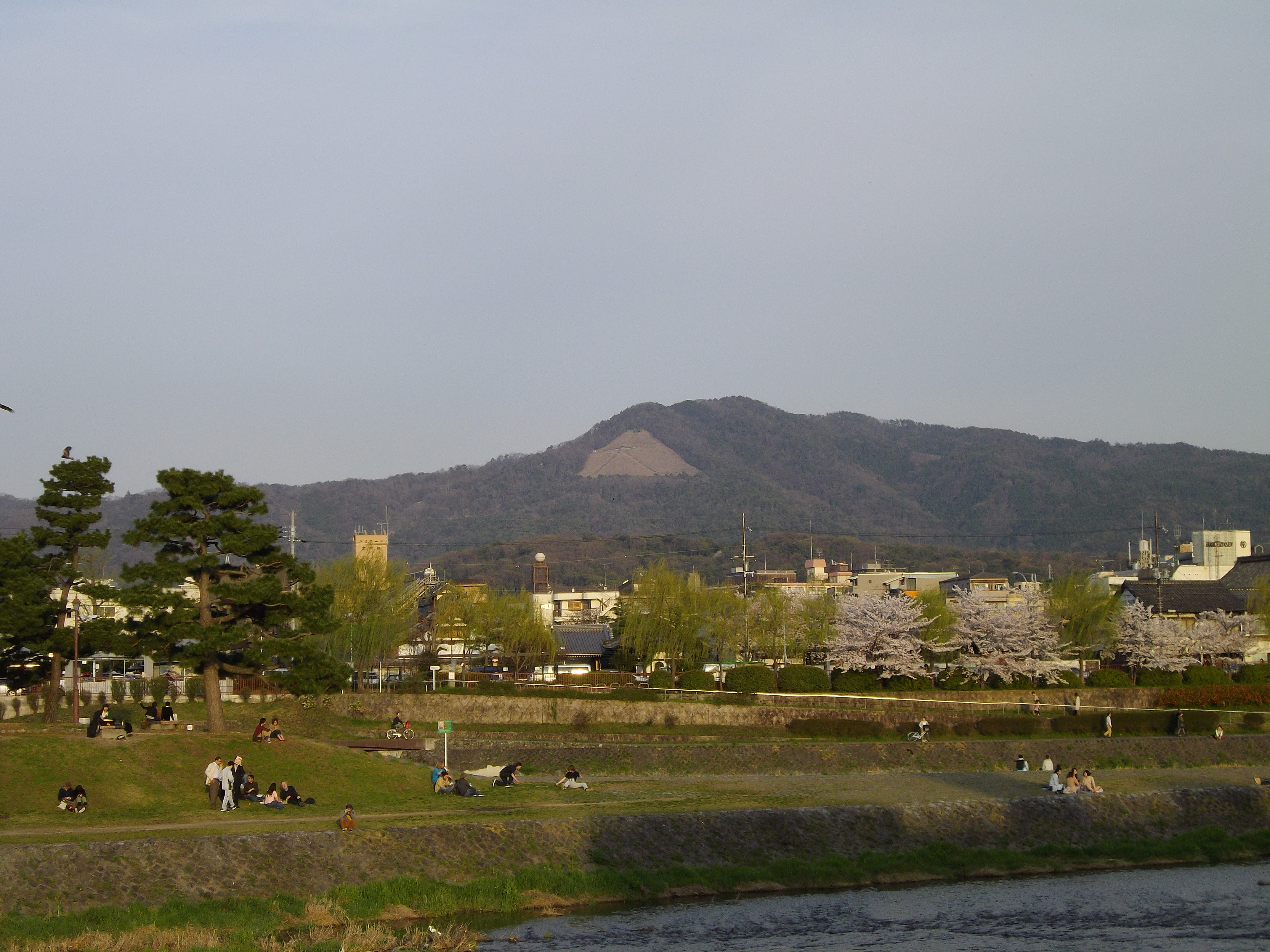 mt.Nyoigatake (alias : mt.Daimonjiyama Nippon, Kyoto)